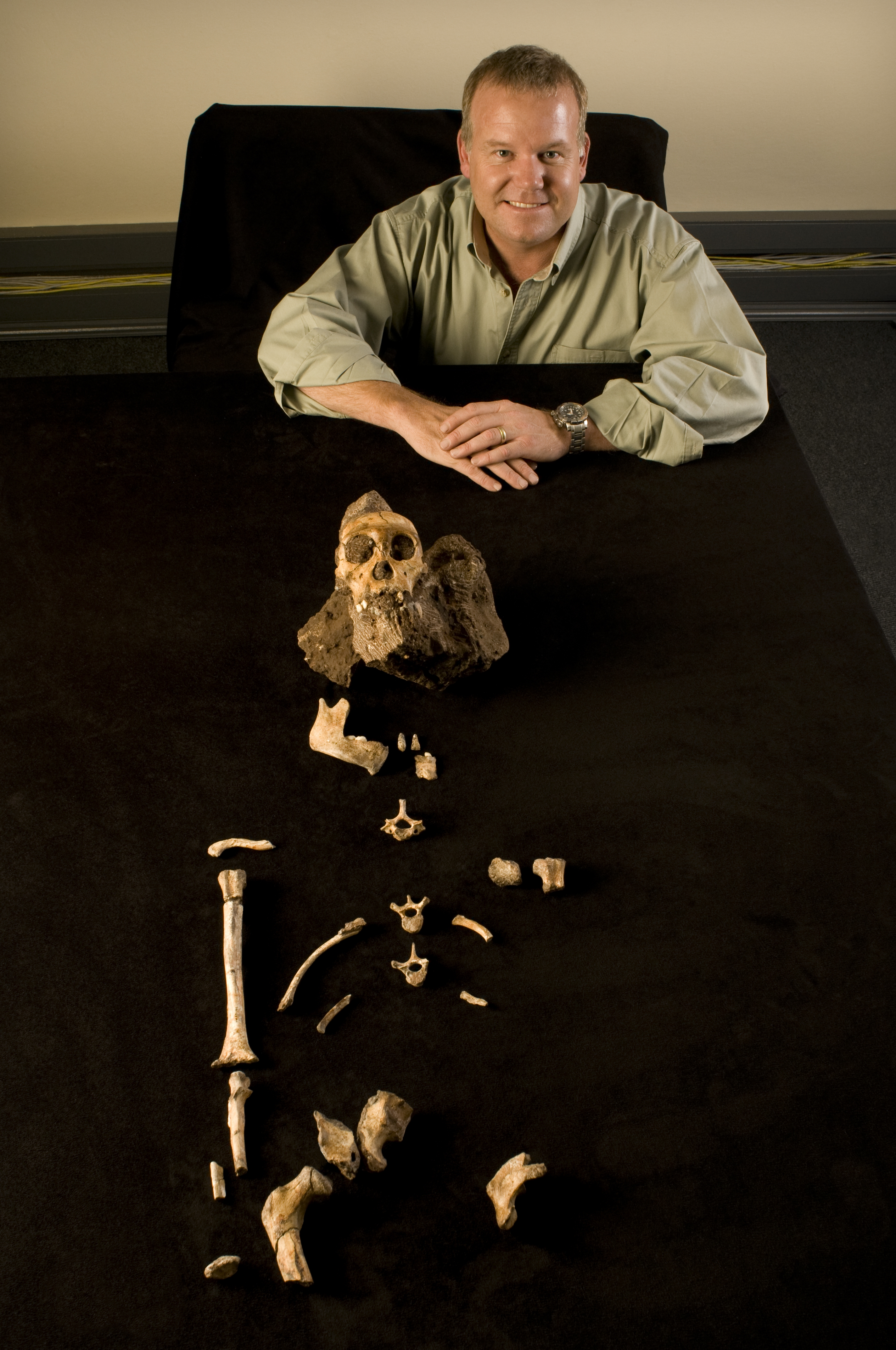 Lee Berger with the partial skeleton of Australopithecus sediba. Photo by Brett Eloff, courtesy Lee Berger and the University of the Witwatersrand.